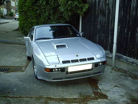 Porsche 937 front